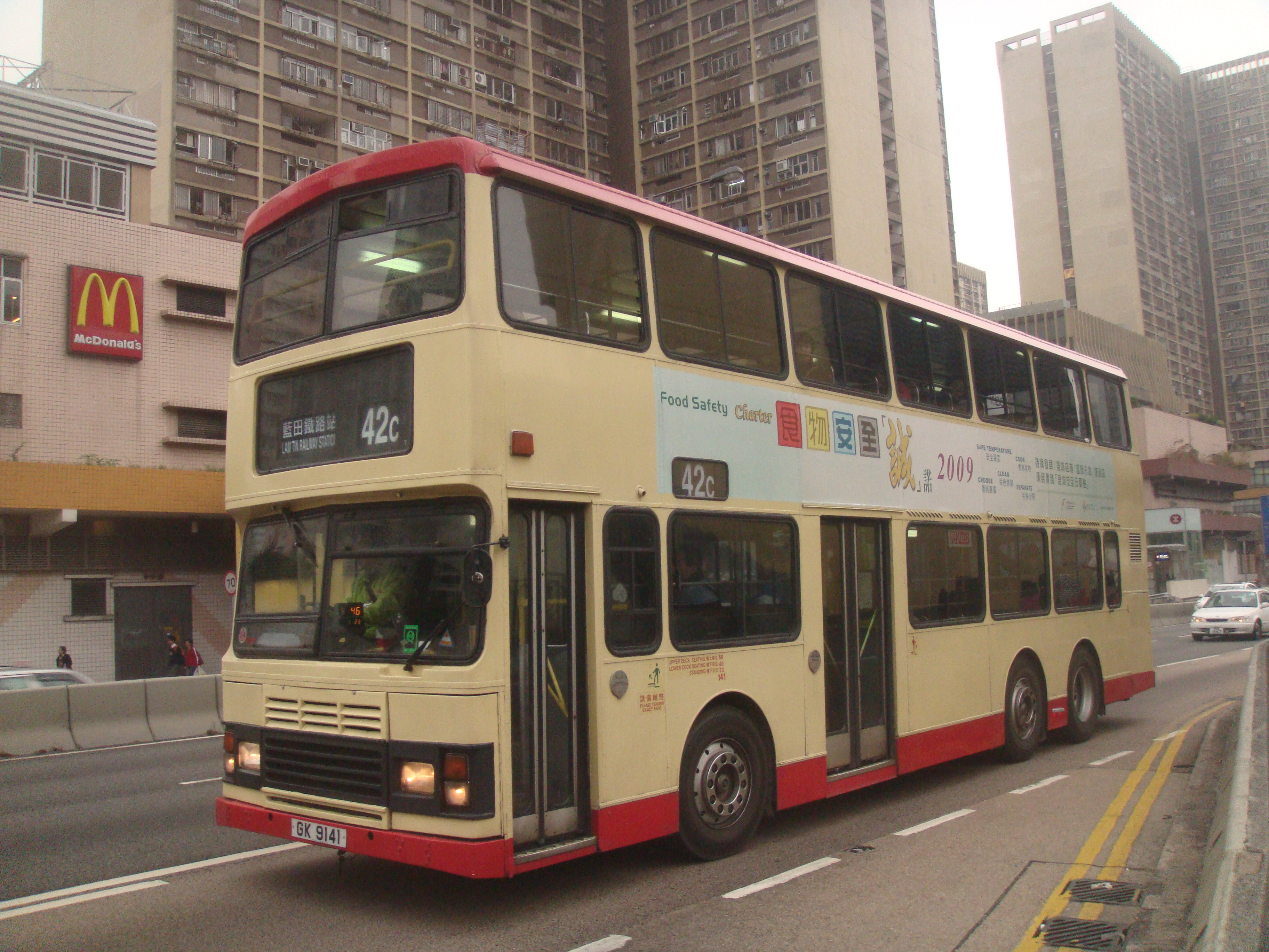 A non-airconditioned Volvo Olympian operated by Kowloon Motor Bus in Hong Kong.